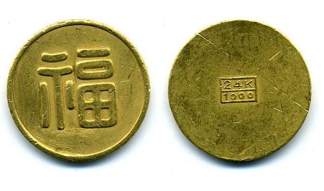 Marufuku Gold coin issued by Japanese Imperial government, Purpose for war fund in China & South East Asia, 1943~1944. Only found in Japan & Philippine as Yamashita Gold.